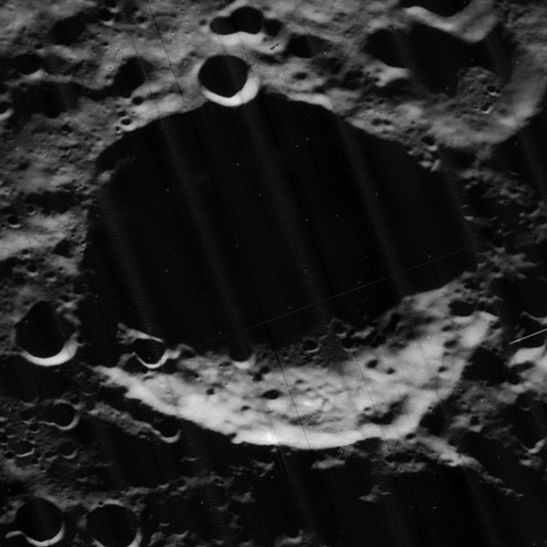 Oblique view of Merrill, on the far side of the moon, facing west.